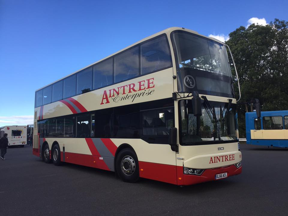 XL66ACL, a BCI Enterprise of Aintree Coach Lines, at Showbus 2016